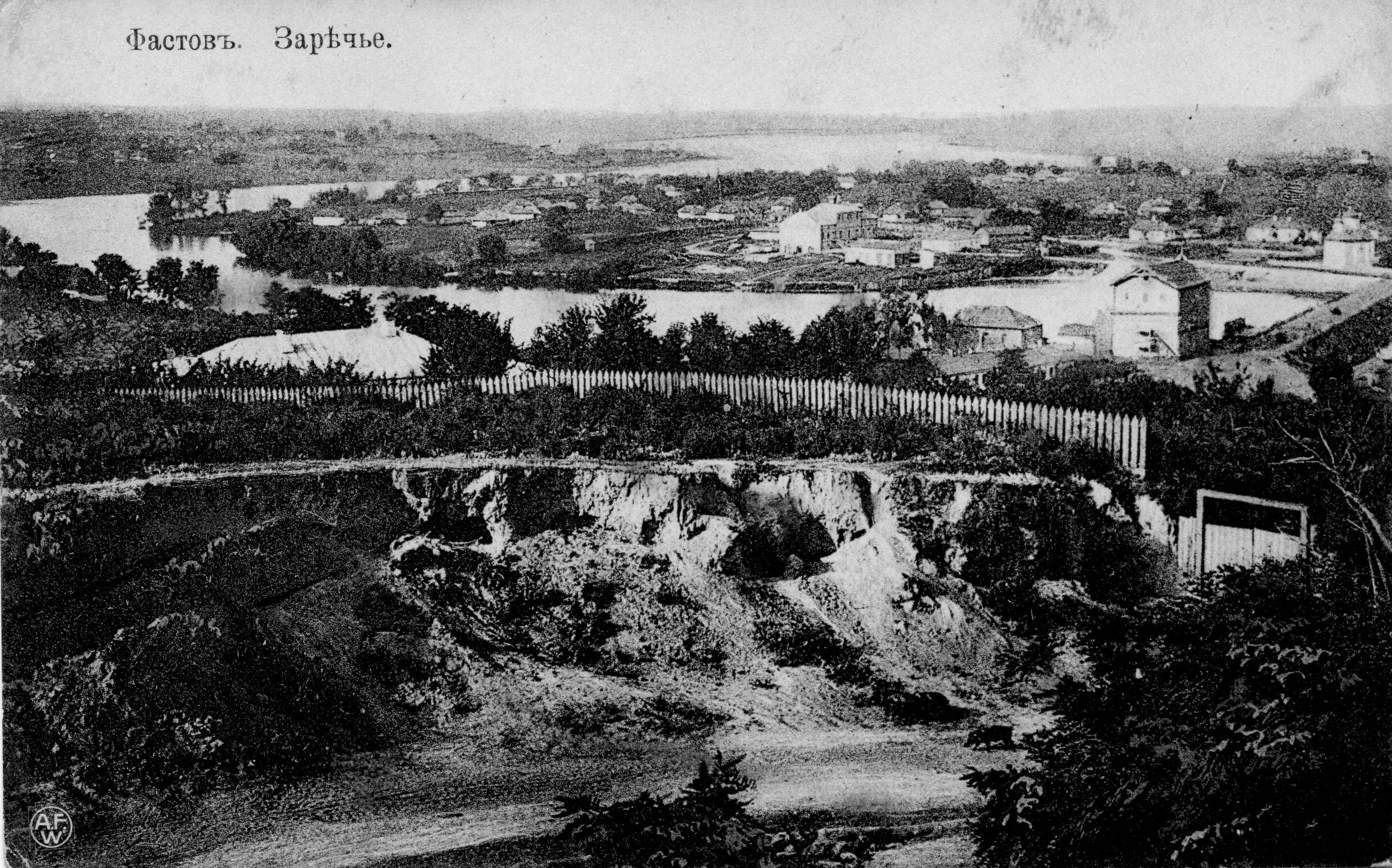 Fastov, city in central Ukraine (till 1917 in tsarist Russia)